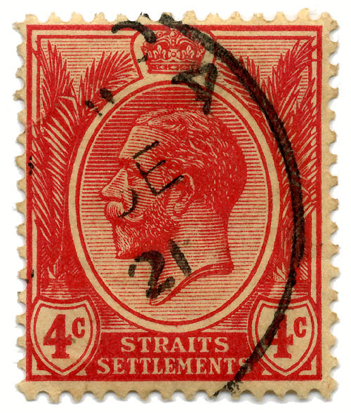 Scan of Straits Settlements 4c stamp of 1918